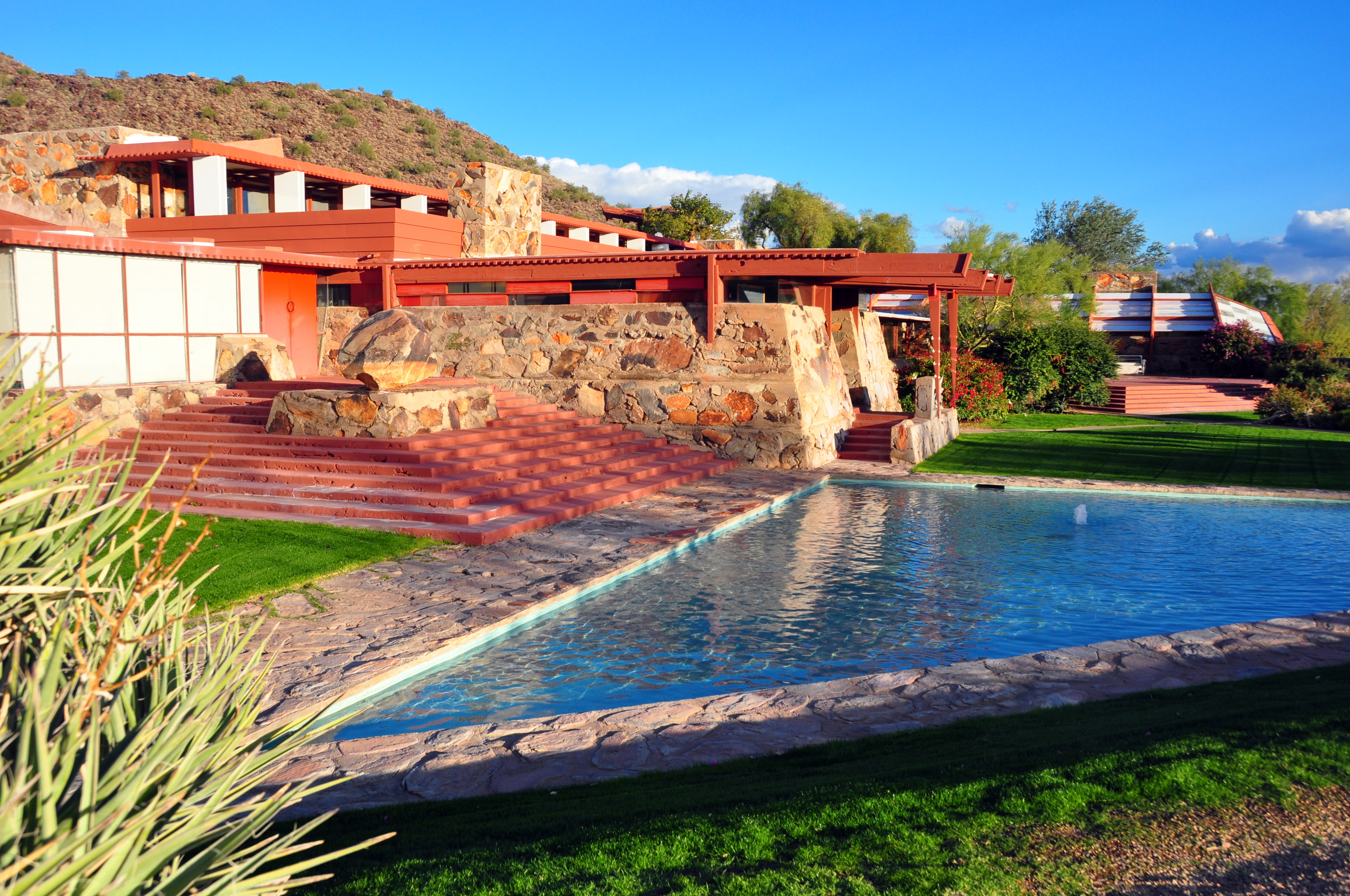 A photo of Taliesin West in December 2010.